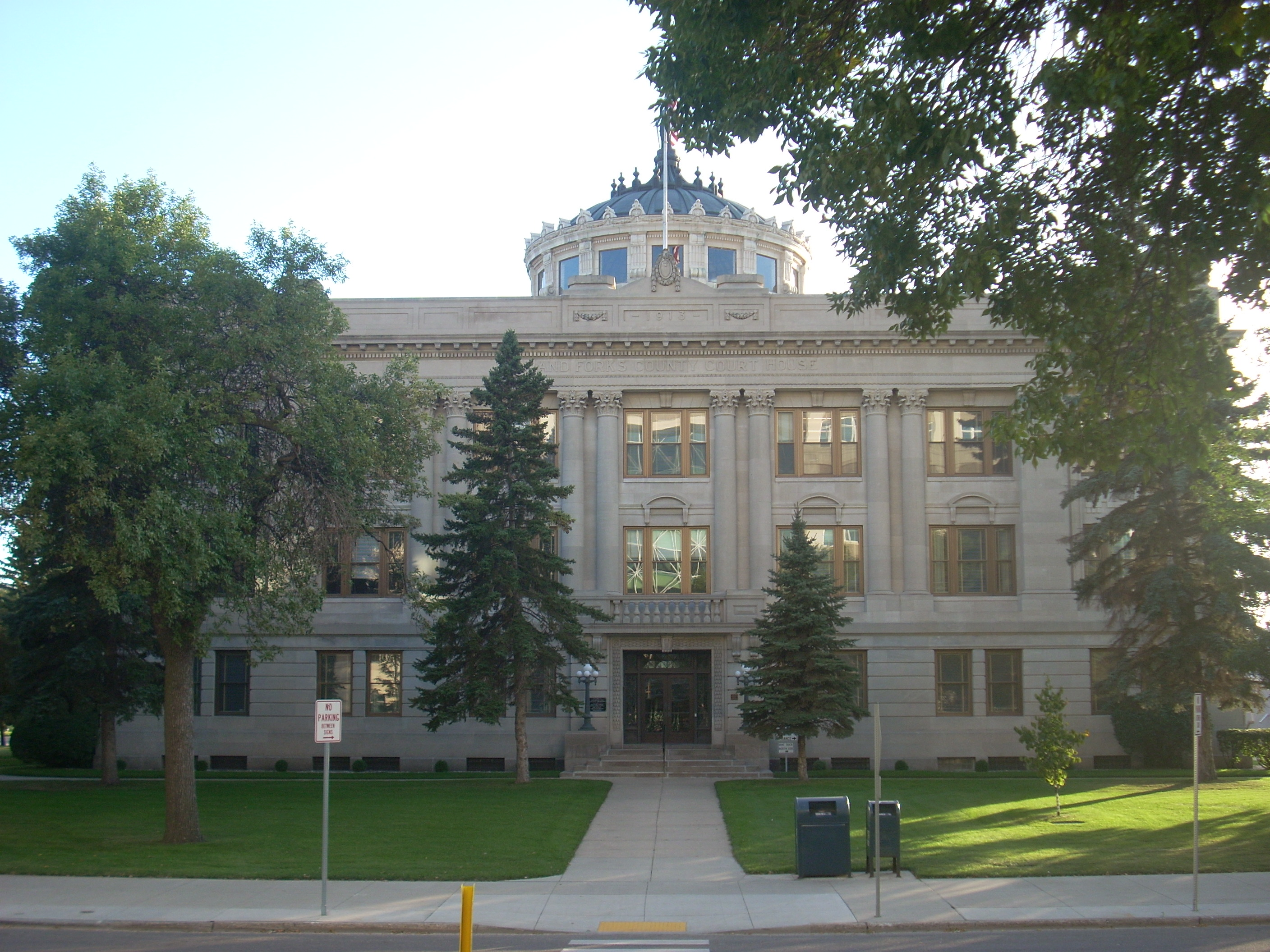 Grand Forks County Court House